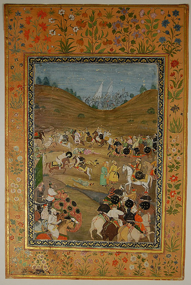 Painting on both sides of paper. Recto: Two officials in long green and yellow jamas are brought captive before a general on a white horse. An elephant in battle dress and men riding on horseback are in the foreground. The background depicts a battle scene; two warriors charge at each other, warriors ride on horseback and fall off their horses. An army approaches behind low brown hills in the background. Ornate border with gold floral design on blue, gold and orange margin and outer large border of multicoloured floral sprays on peach background. Verso: Four multicoloured birds perch on branches of a flower with large, heavily shaded lilac flowers. Orange floral sprays at bottom. Orange and white floral border, blue and gold floral border, gold, orange and green margins. Recto: Historical battlescenes were commissioned by Mughal emperors to record important events, battles and conquests. This maybe a recording of the capture of two prisoners at an important battle by Allahvardi Khan Jahangiri. It appears to be a later copy of a 17th century Mughal painting